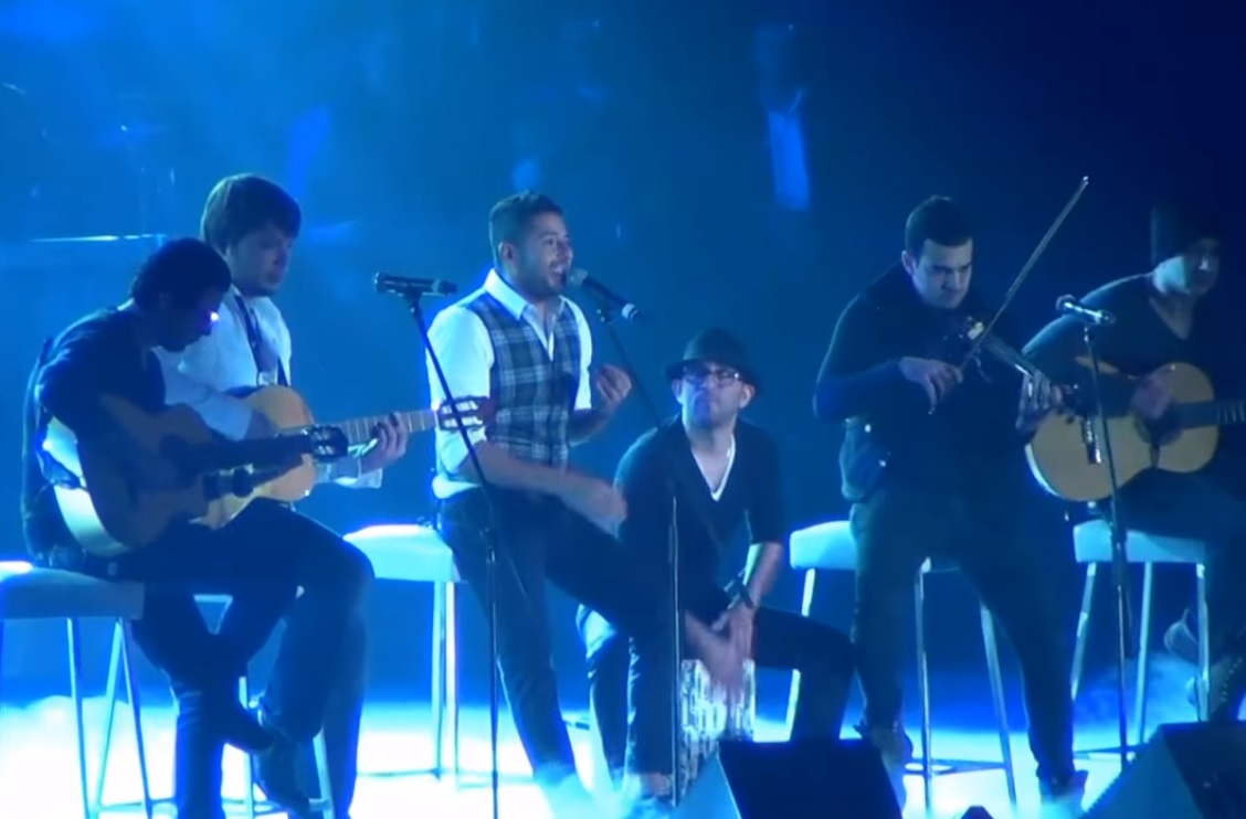 Hamaki in Cairo stadium concert 2013